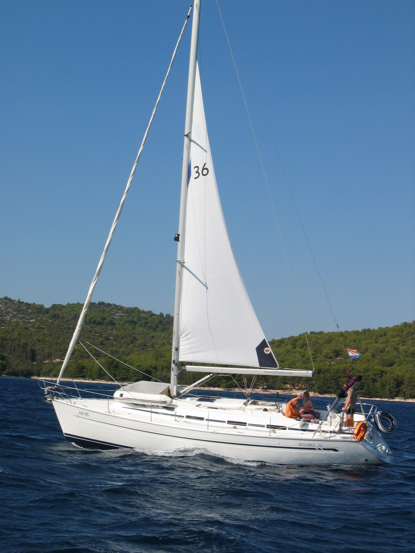 Bavaria 36 sailing yacht, 2004 in Croatia